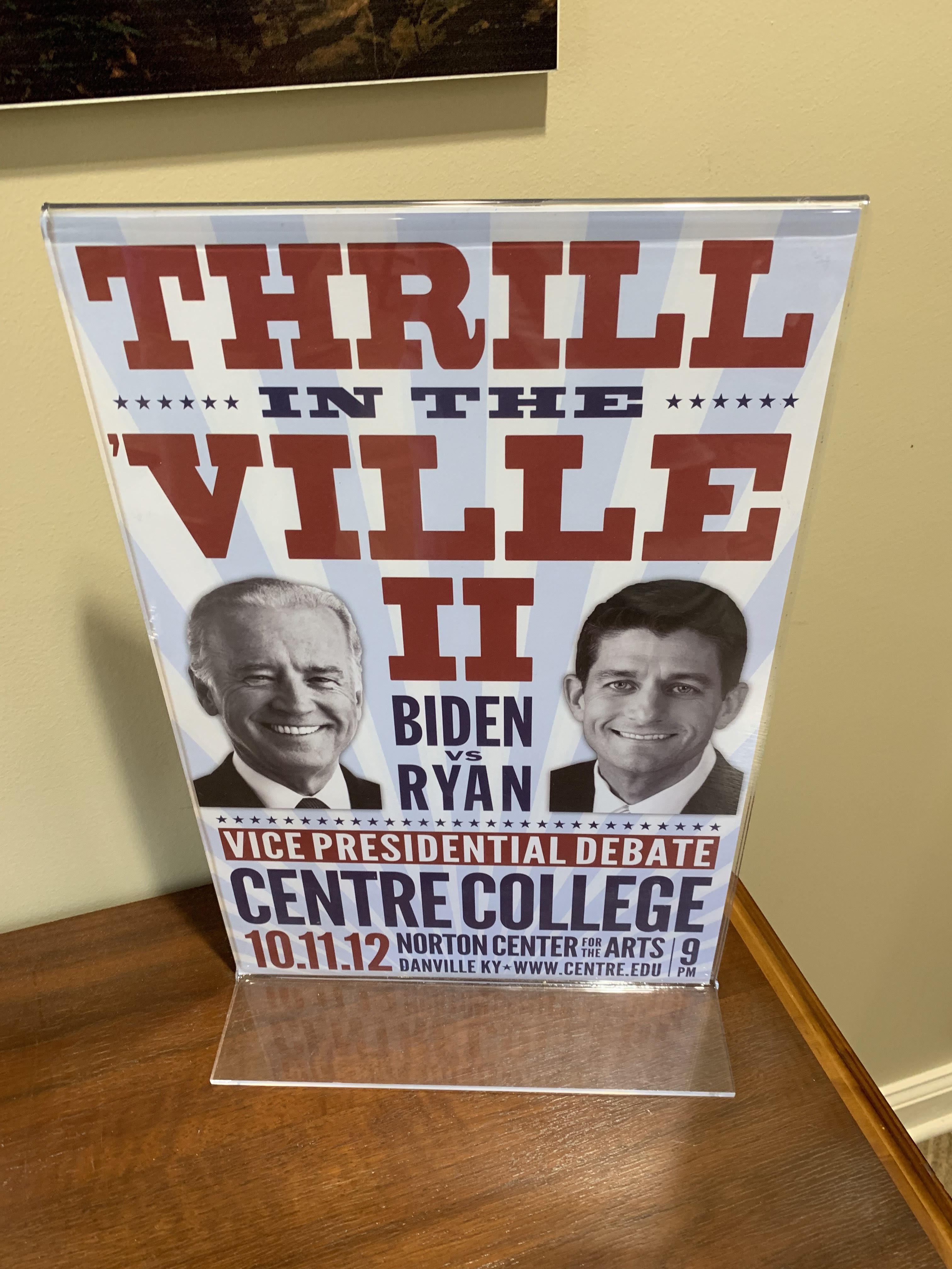 Flyer on display at Centre College in Danville, Ky., advertising the Vice Presidential debate between Joe Biden and Paul Ryan that took place at Centre on October 11, 2012, ahead of the 2012 United States presidential election.